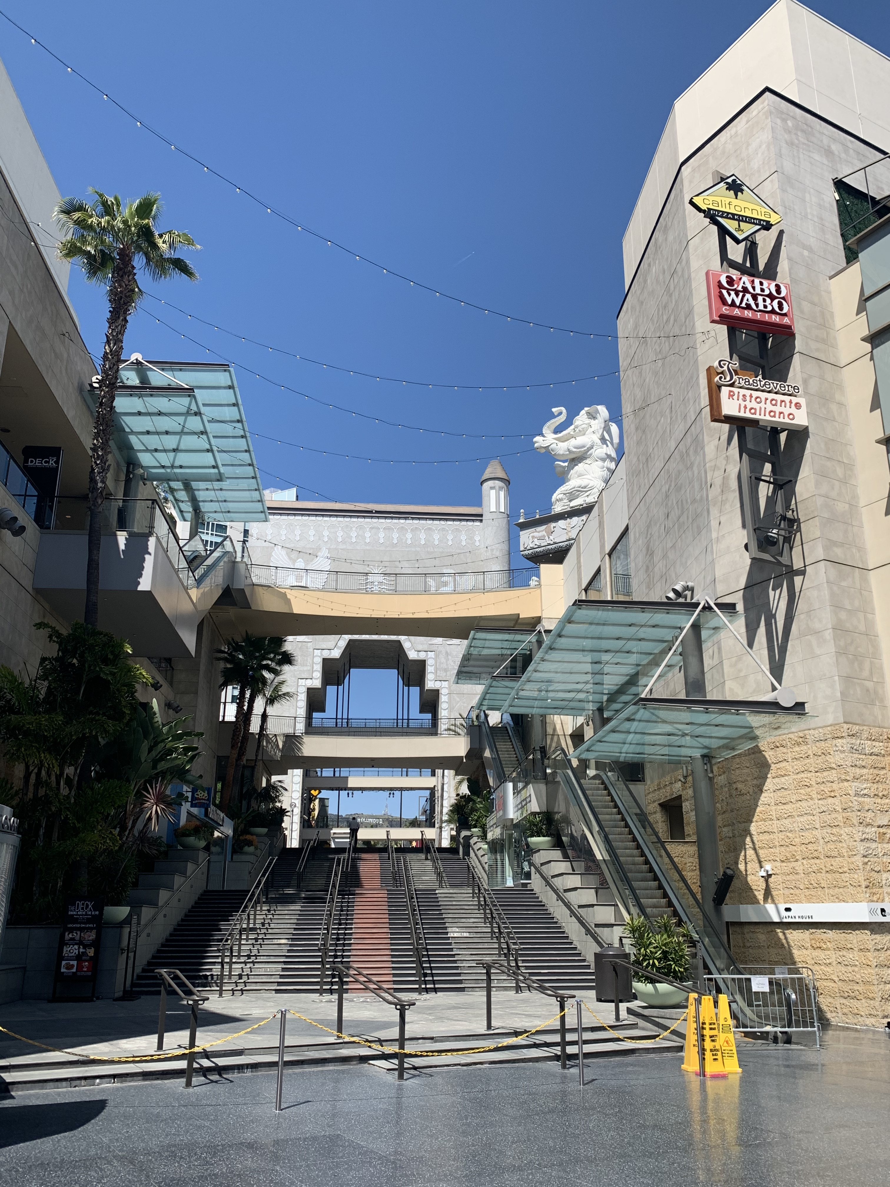 This is the entrance of Hollywood & Highland with shops and restaurants visible.